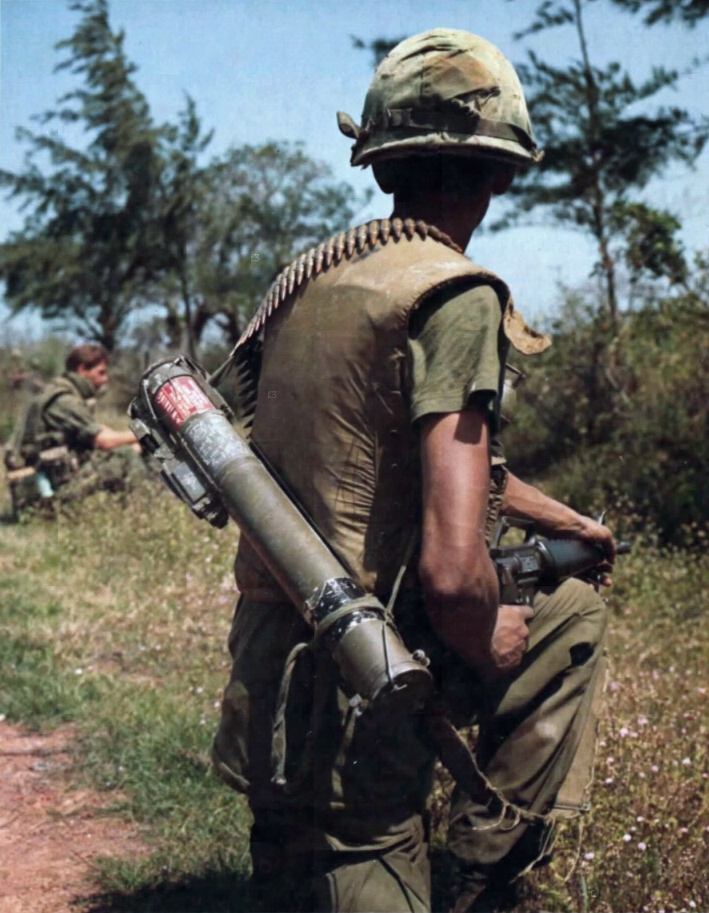 Ap My Thanh, Vietnam: A member of 2nd Platoon, Company D, 2nd Battalion, 7th Cavalry, 3rd Brigade, 1st Cavalry Division (Airmobile) carrying an M72 rocket launcher (Light Anti-Tank Weapon, LAW) on his back during Operation Jeb Stuart. The M-72 is an anti-tank weapon and is used on a one time basis and then the firing mechanism is destroyed to prevent enemy capture.